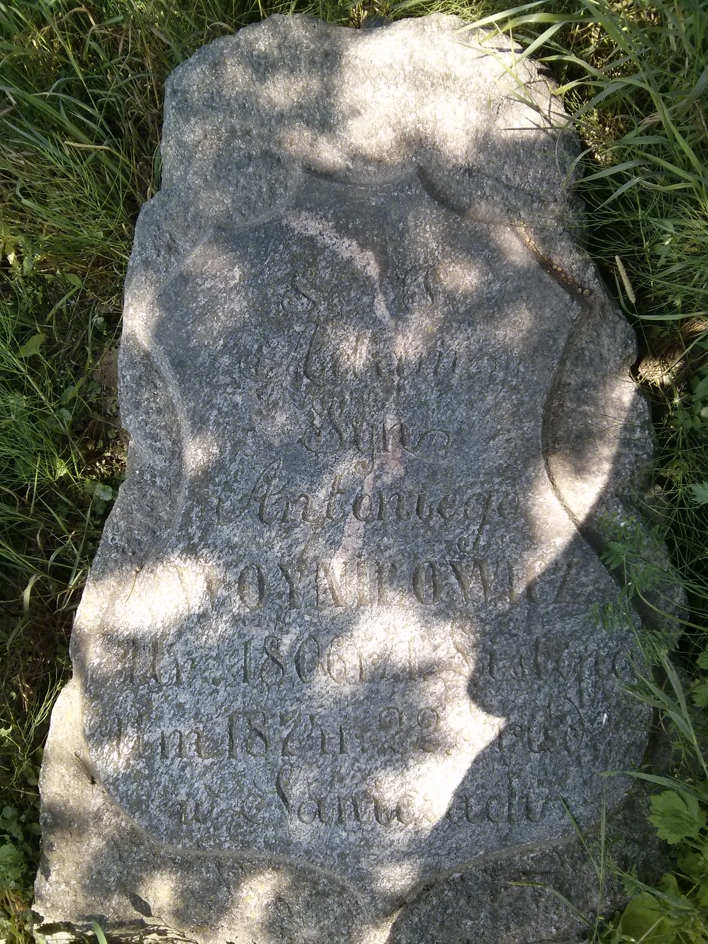 gravestones monument upon Adam Woynillowicz's (1806-1874) grave in Savichy village near Kopyl town (Belarus). Done before 1900 AD.